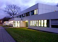 Microgravity User Support Center